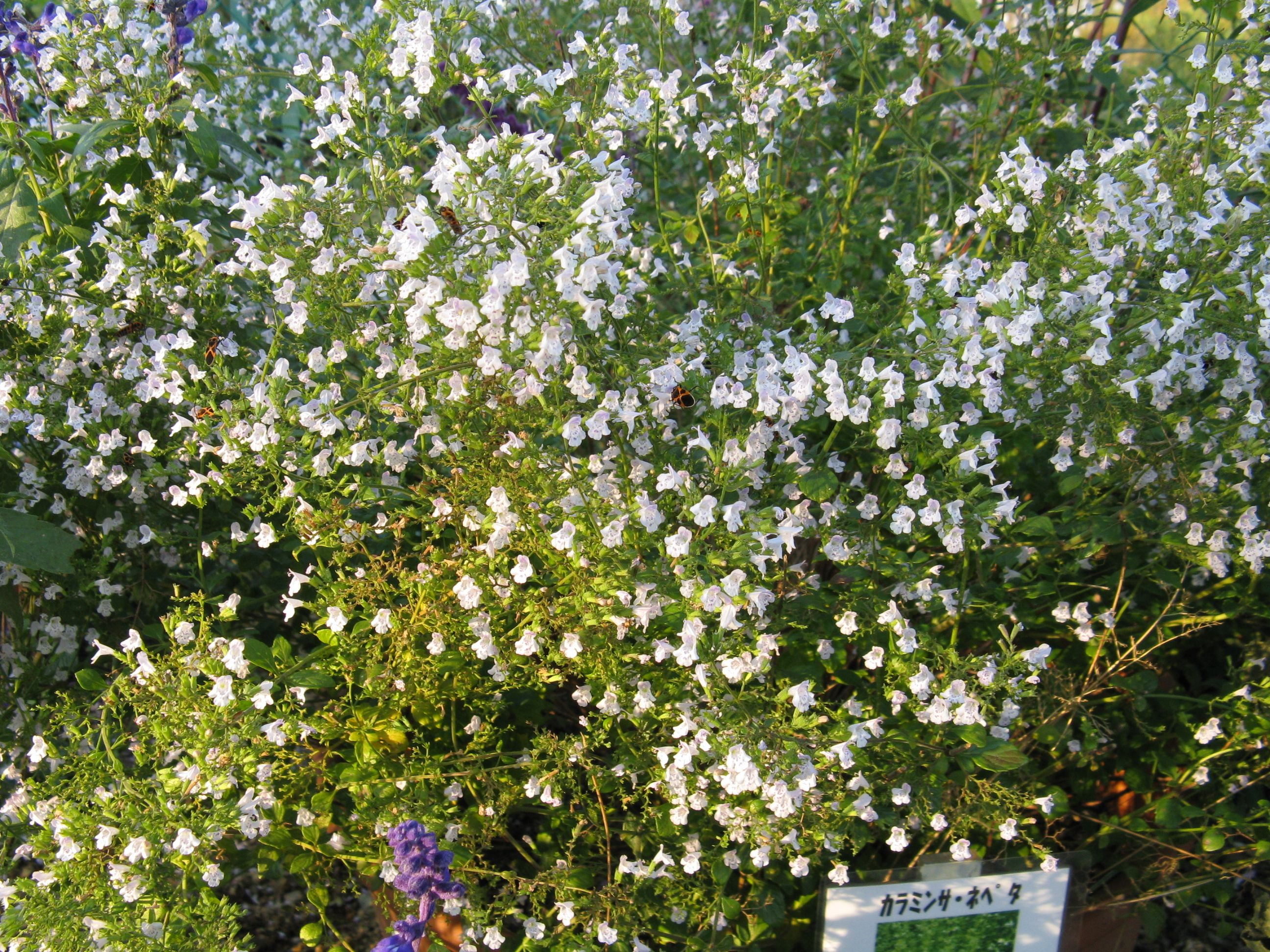 Calamintha nepeta